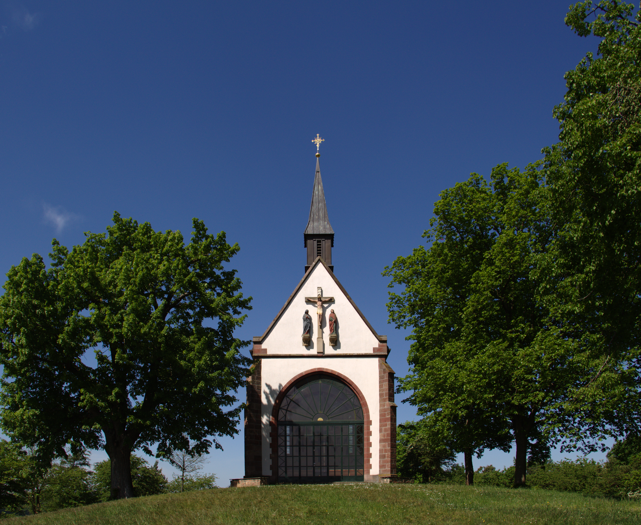 Schulzenberg Chapel near Haimbach, Fulda, Hesse, Germany